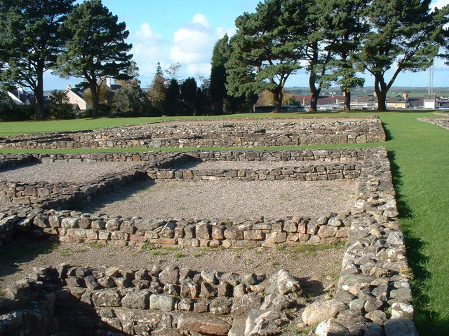 Segontium Roman Fort Built around 77A.D. to house 1000 soldiers.